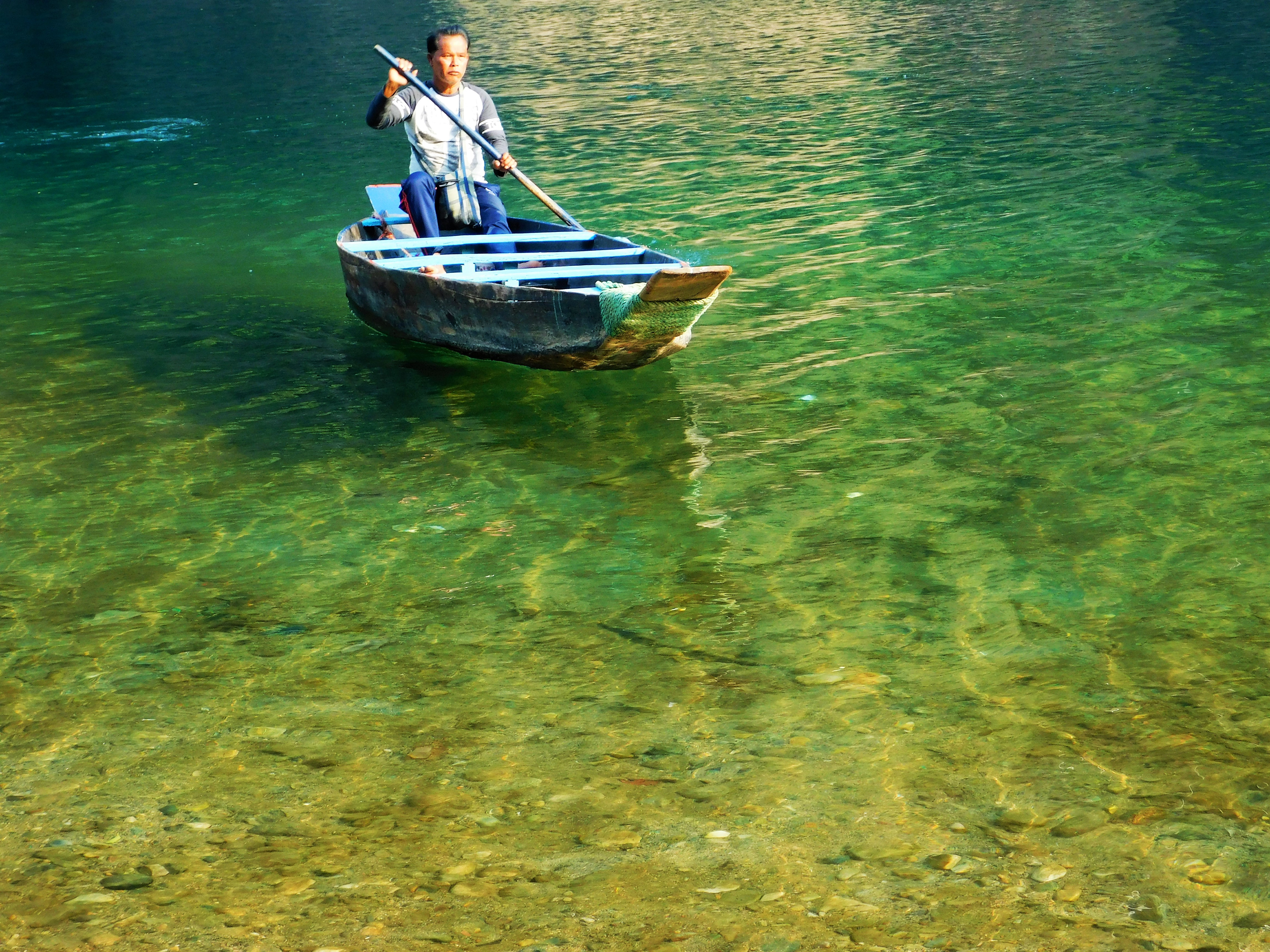 Water is so clear it seems that boat is levitating in air.